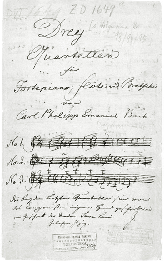 Quartets for Keyboard, Flute, and Viola. Title page, in the hand of Carl Friedrich Zelter